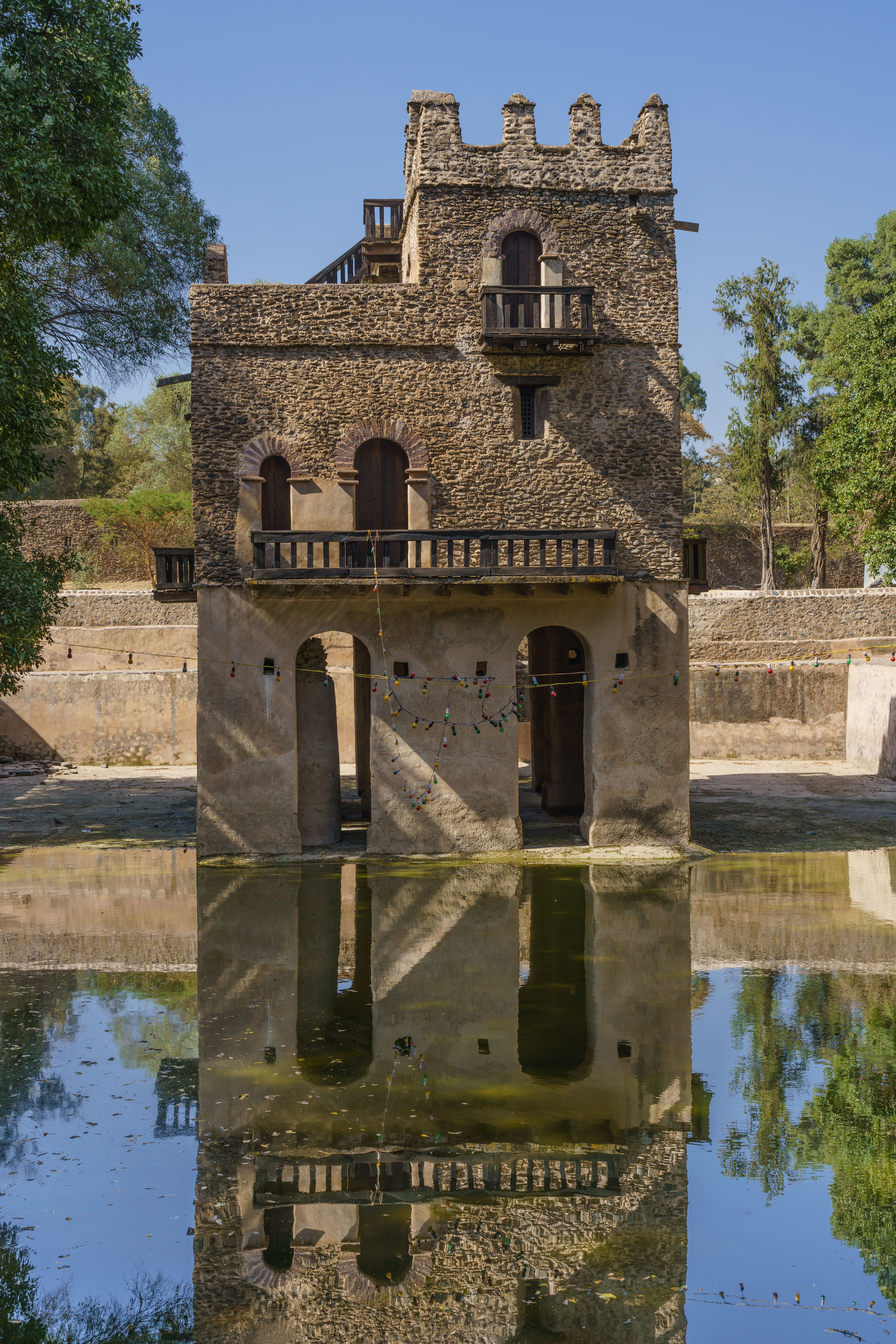 Fasilides' Bath in Gondar, Ethiopia